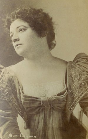 Georgia 'Georgie' Eva Cayvan (1858-1906)